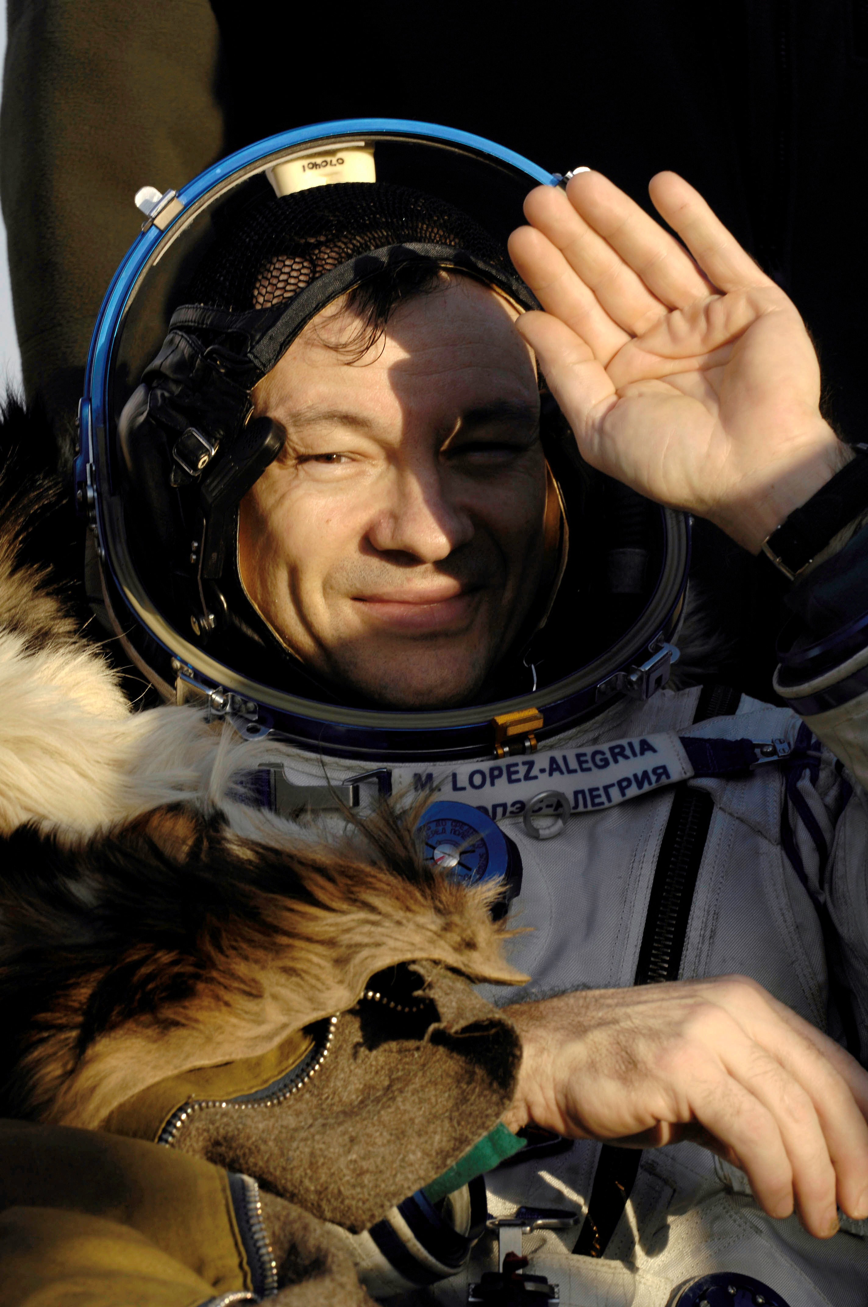 NASA astronaut Michael López-Alegría after the landing of the Soyuz TMA-9 spacecraft in Kazakhstan.